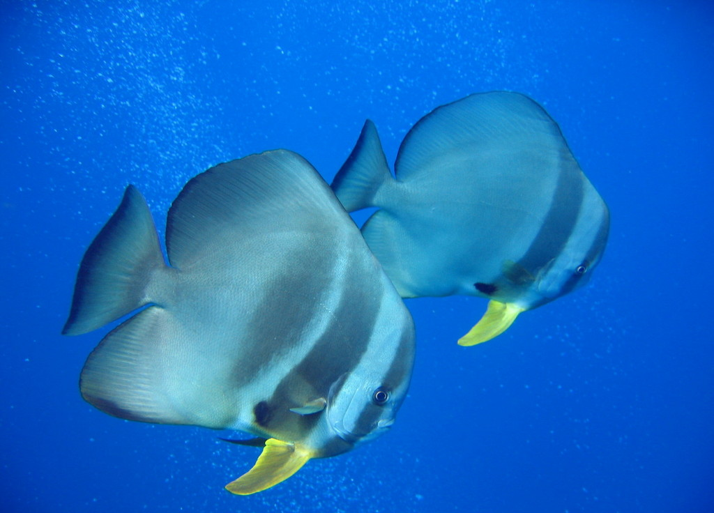 A pair of Teira Batfish (Platax teira) in blue water. Fish Rock Cave, South West Rocks, NSW167564465